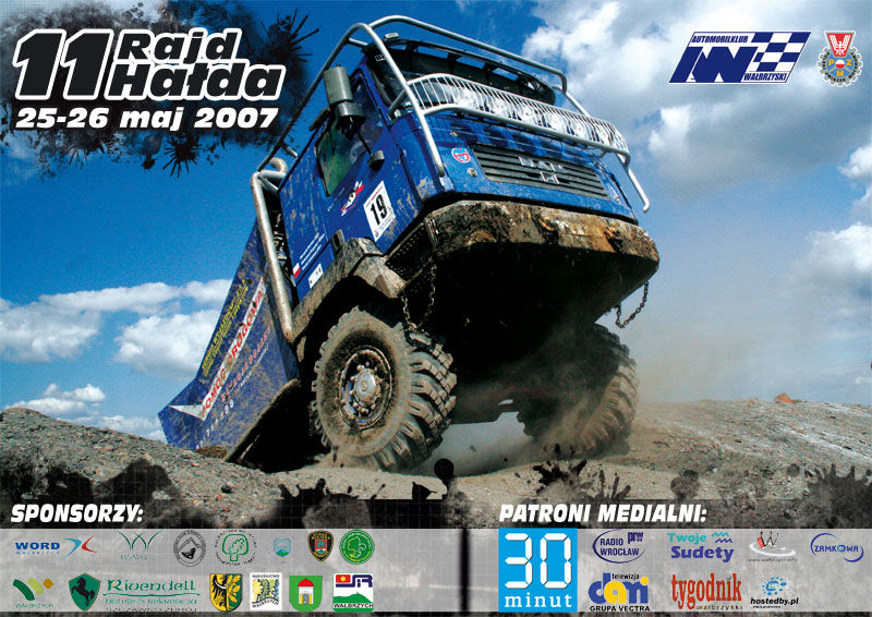 Rally Hałda.